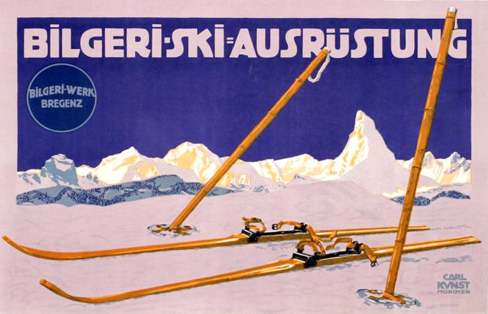 Bilger Ski Avertisement Bilboard from 1910